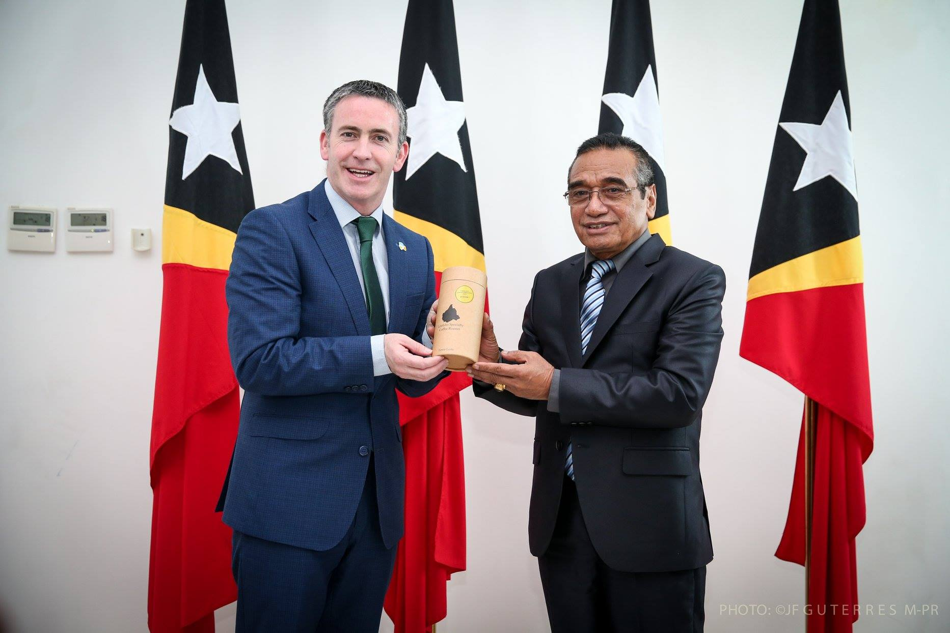 The Irish Minister of State for Housing and Urban Development, Damien English, was welcomed by the President of the Republic Francisco Guterres Lú Olo, thus initiating a new chapter in cooperation between both countries.